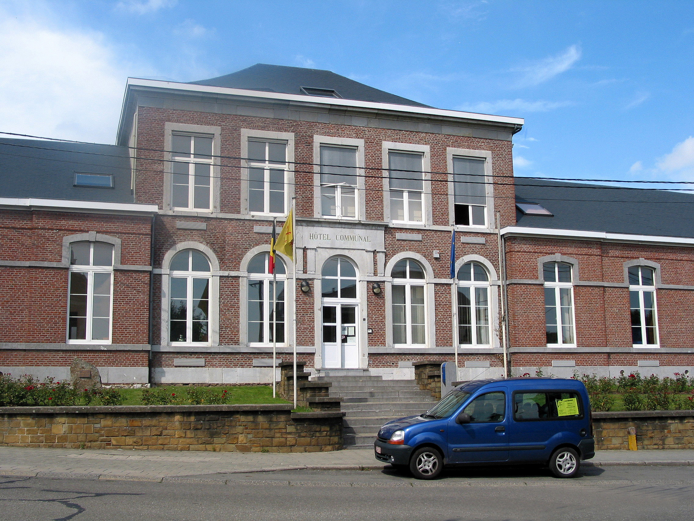 Marchin (Belgium), the town hall.